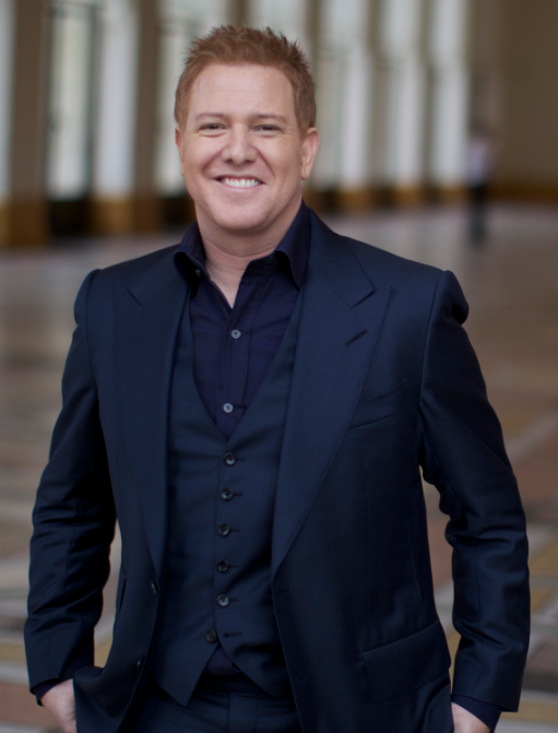 Producer and financier Ryan Kavanaugh